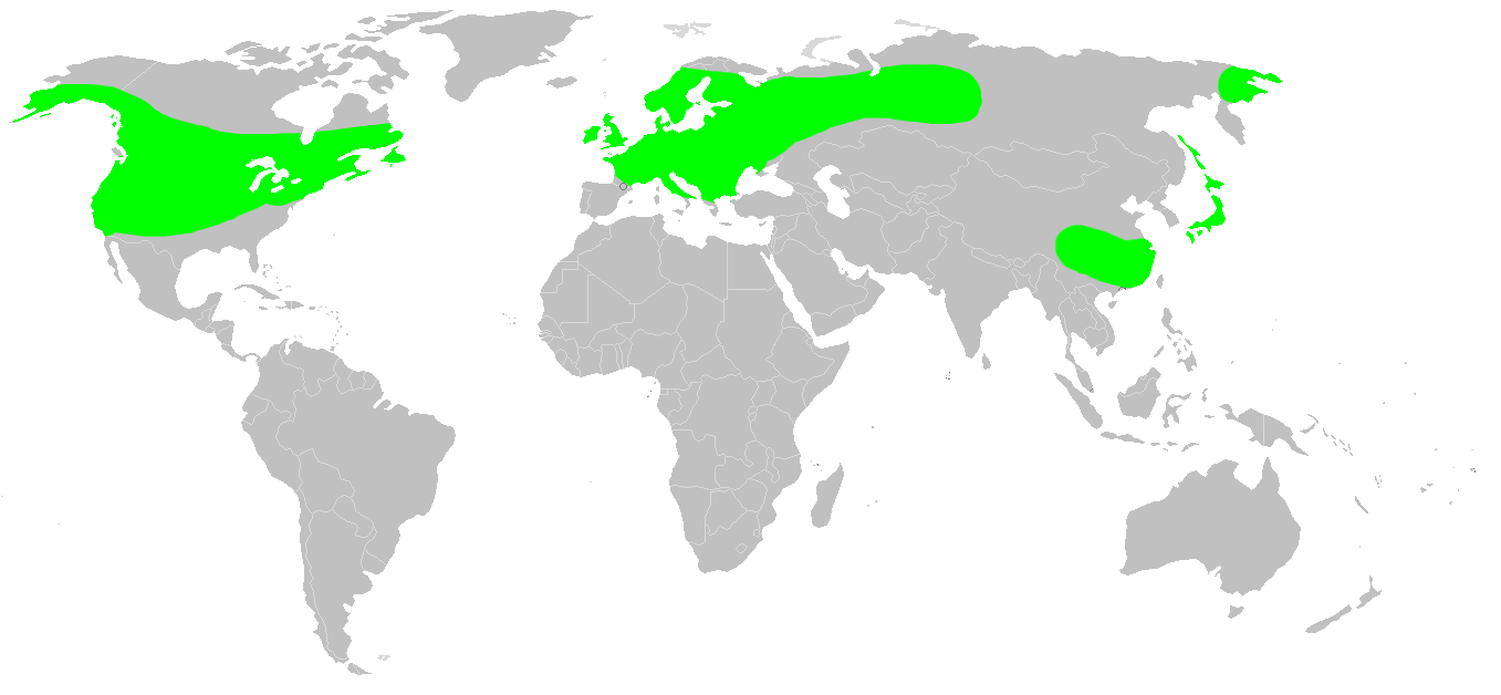 Known world distribution of Clubiona trivialis (Clubionidae), after data from British Arachnological Society, 2006.